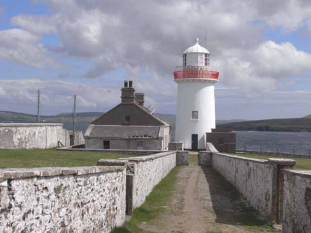 Broadhaven Lighthouse. At the eastern end of the Belmullet peninsula overlooking Broadhaven Bay, County Mayo